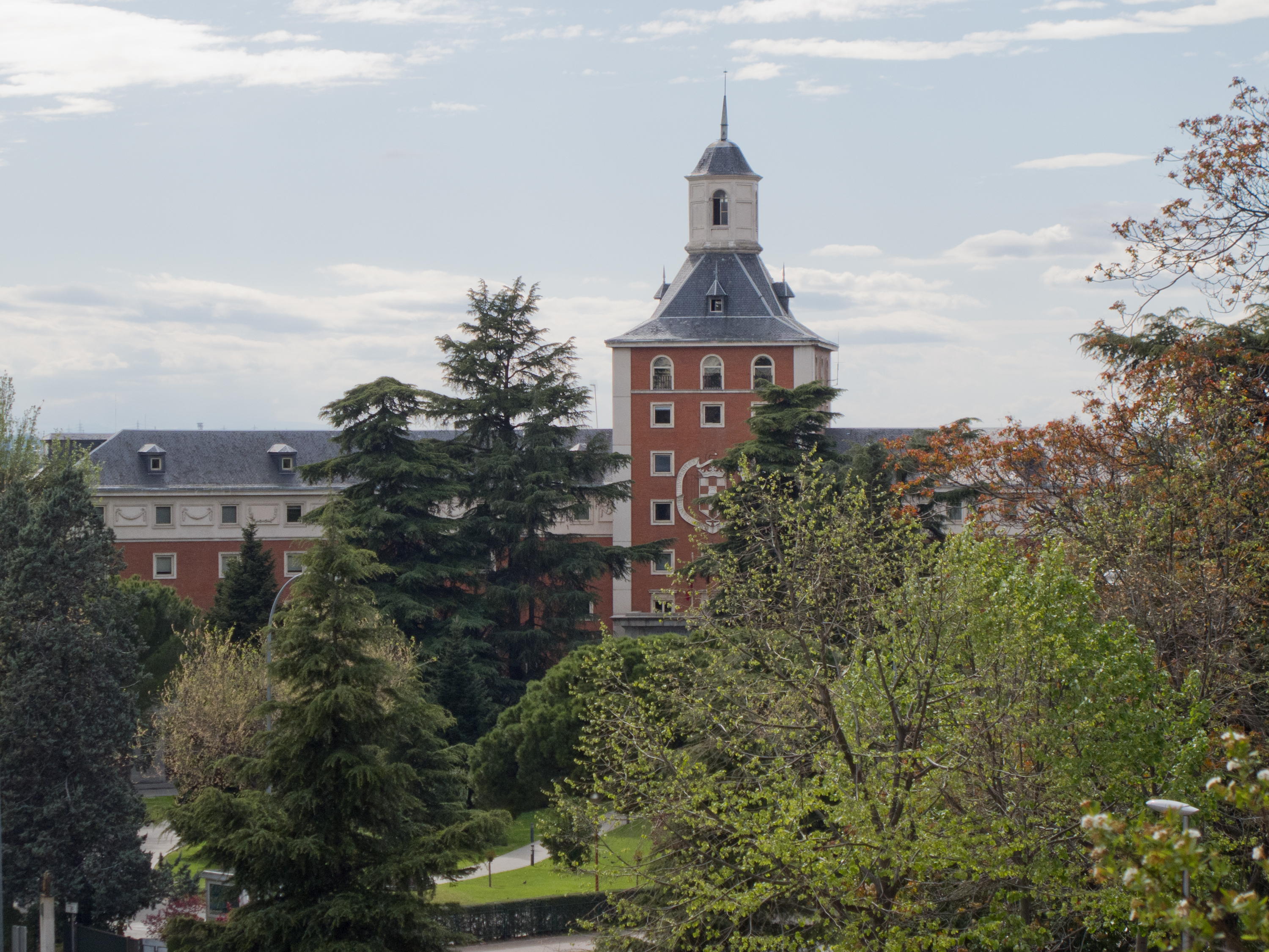 Rectorate of the Complutense University of Madrid, Spain.